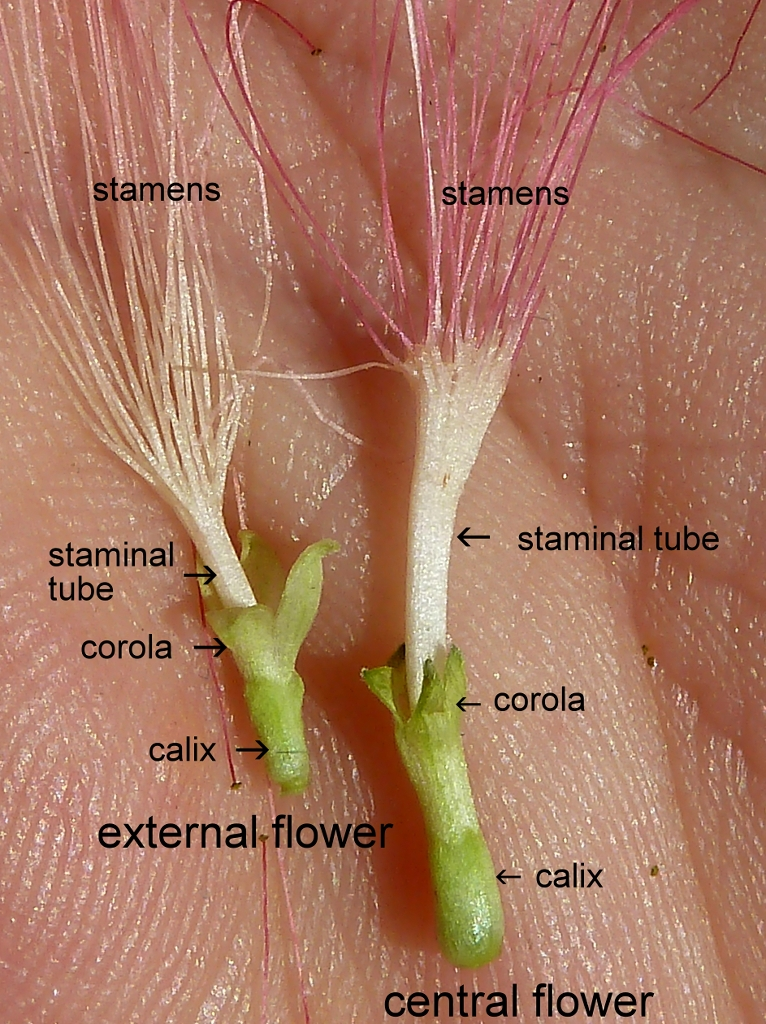 Albizia julibrissin (Persian silk tree) : Flowers, parts - cultivated/ornamental, calle Narváez, Madrid (Spain).